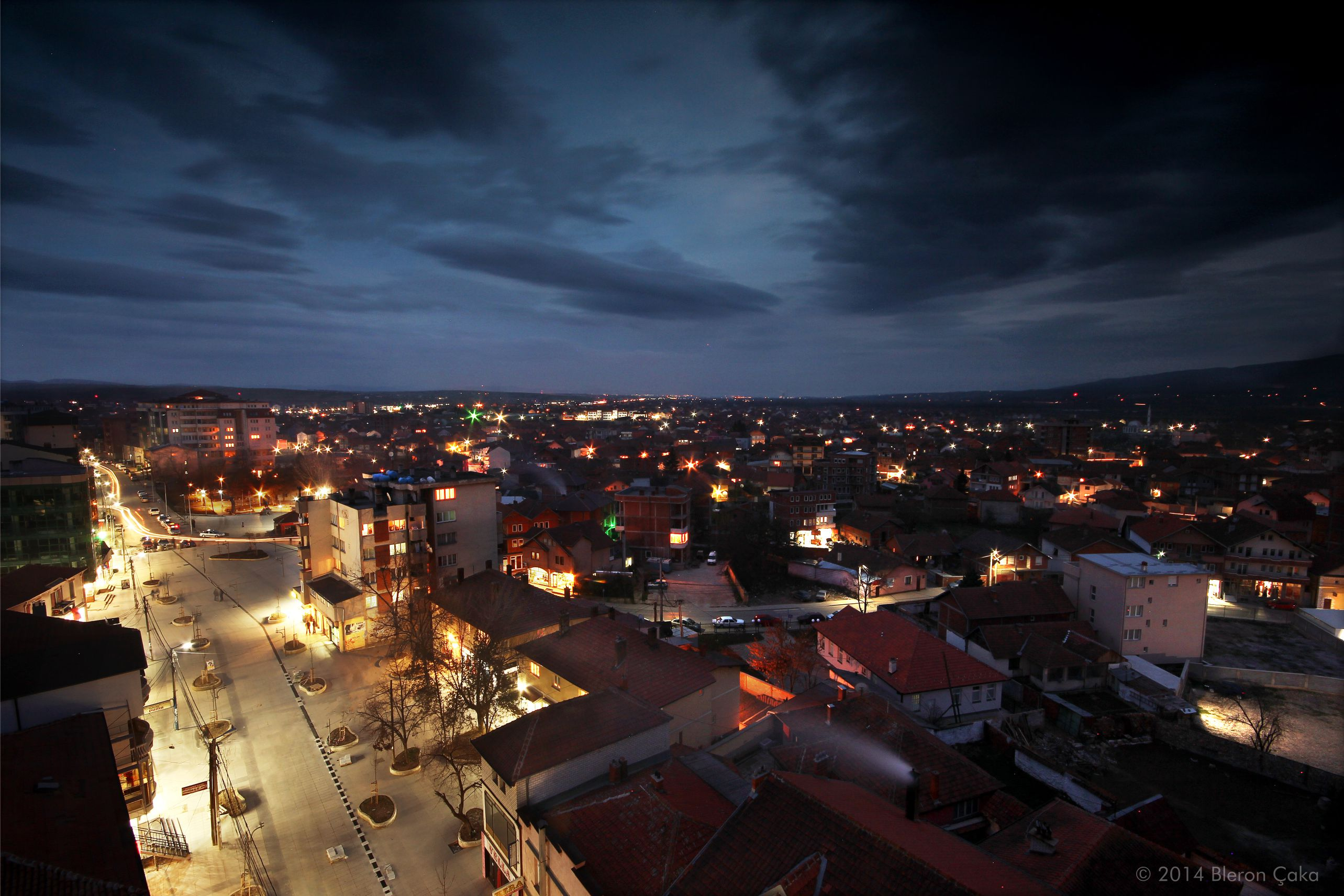 Vushtrri